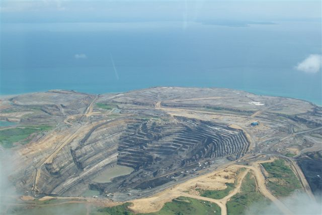 Panian Mine on Semirara Island, Caluya, Antique, Philippines